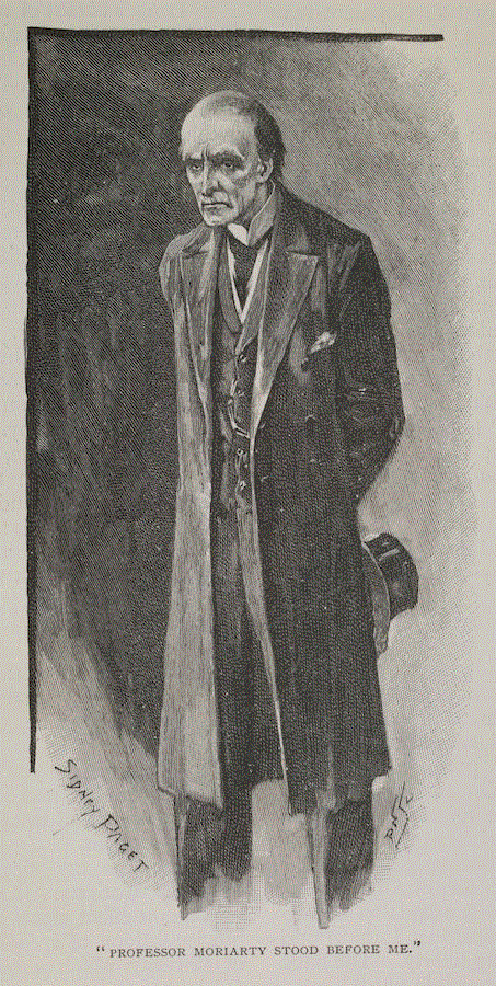 Professor Moriarty. From the Sherlock Holmes story "The Final Problem", which appeared in The Strand Magazine in December, 1893. Original caption was "PROFESSOR MORIARTY STOOD BEFORE ME."